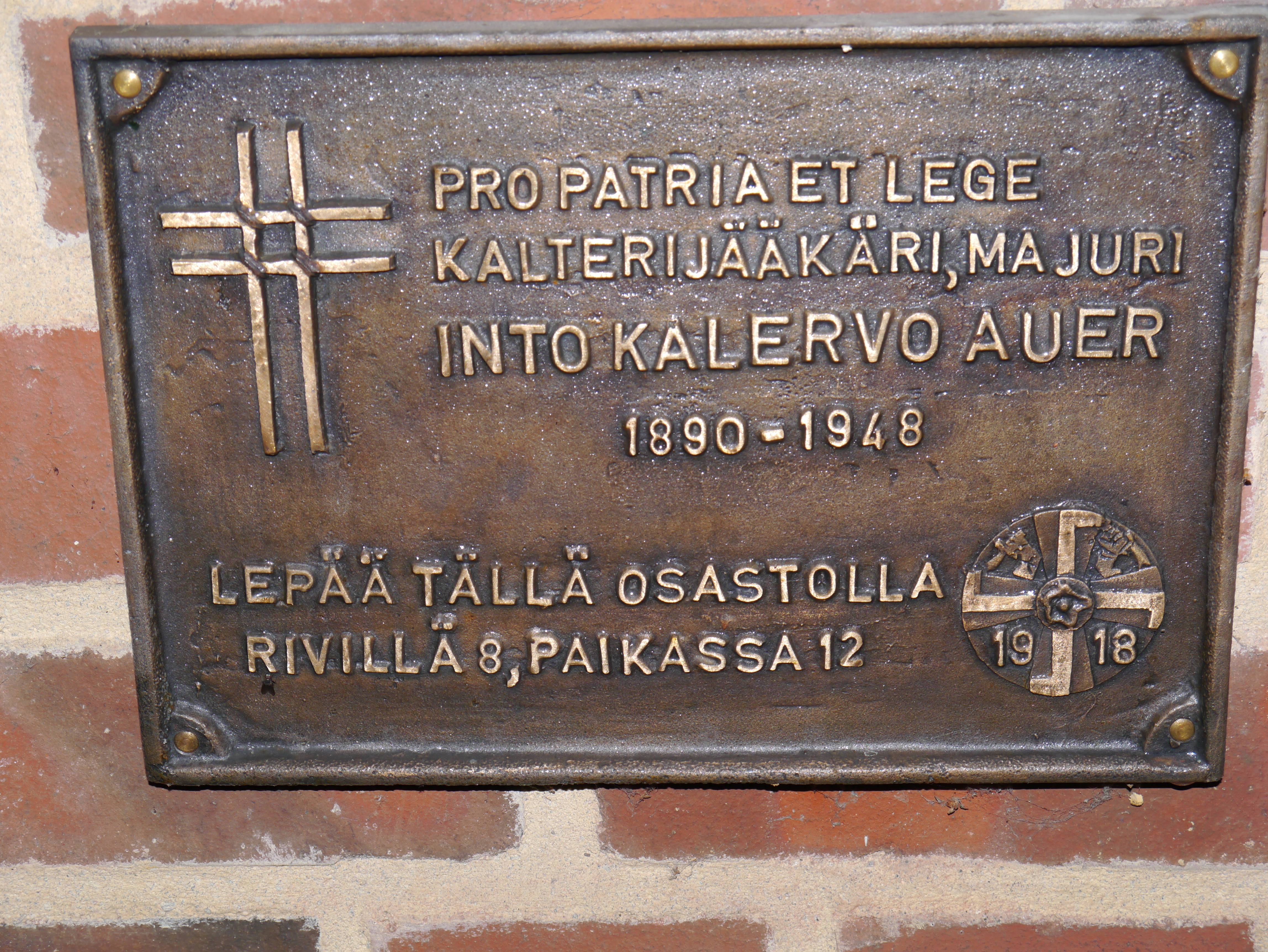 Signum of the burial place of Finnish activist major Into Auer (b.1890-d.1948) at the graveyard Kalevankangas at Tampere, Finland. This plate on the graveyard wall shows the rough location, whereas the gravestone is missing.